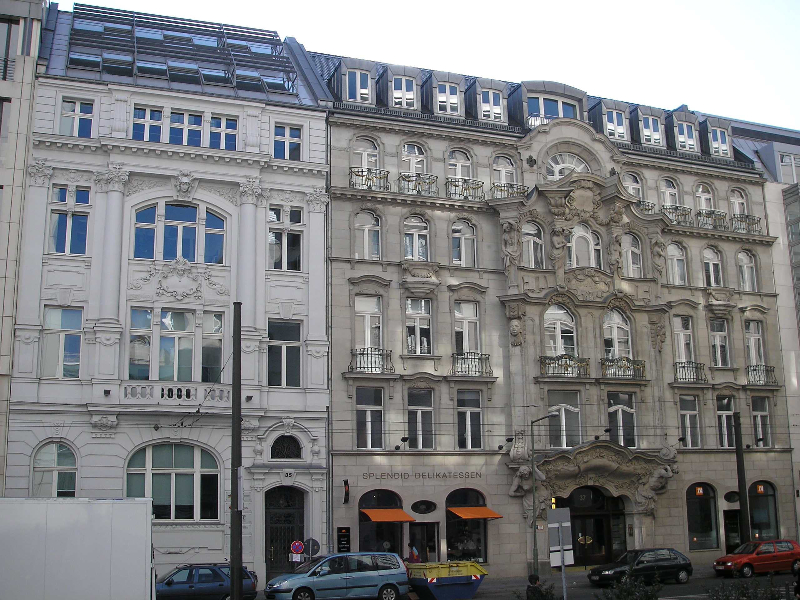 Description: Old buildings on Dorotheenstraße in Berlin. Source: self-made. I release it into the public domain.